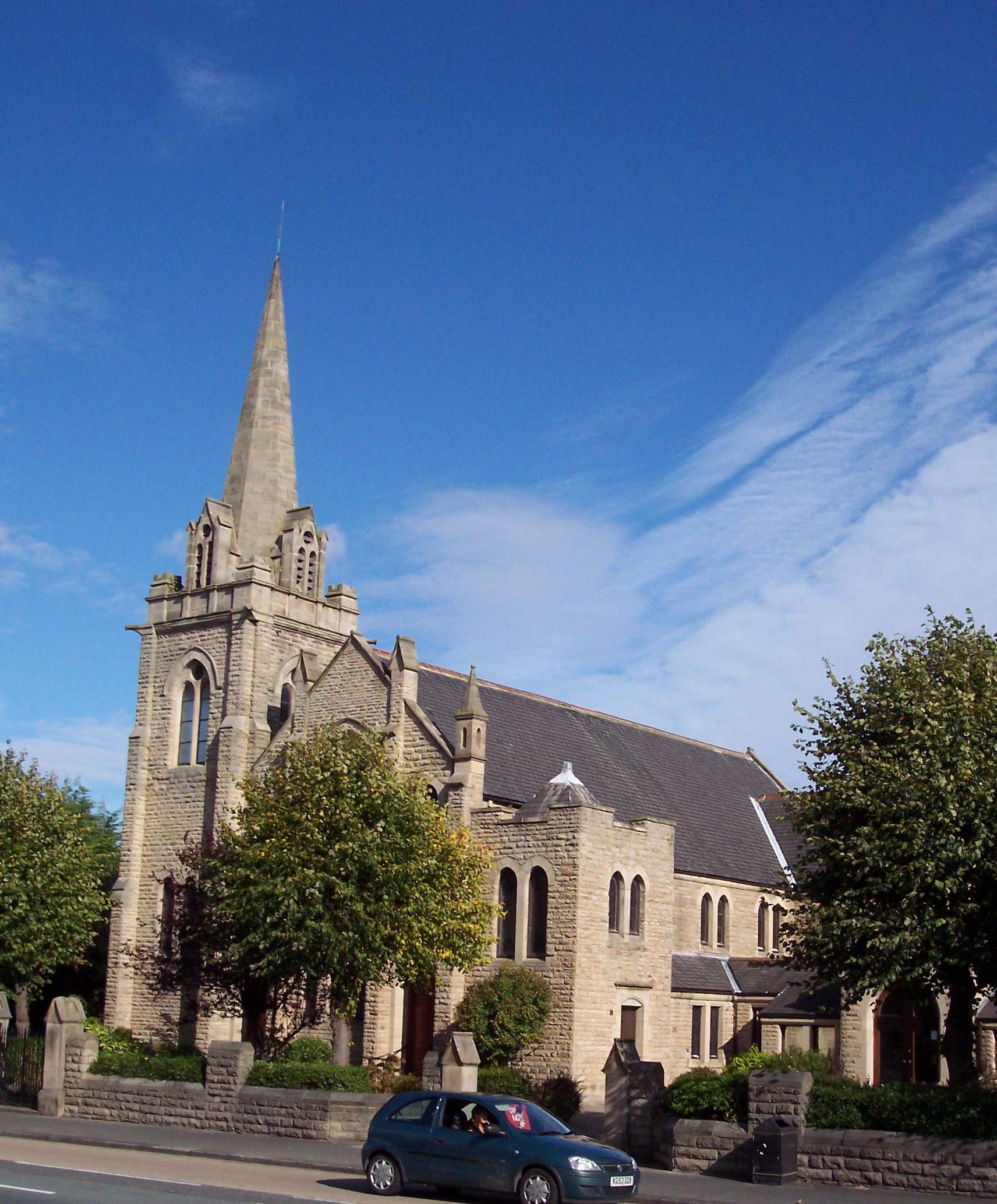 Bishop Auckland Methodist Church (formerly Central Methodist Church), Bishop Auckland. The building is Grade II listed.